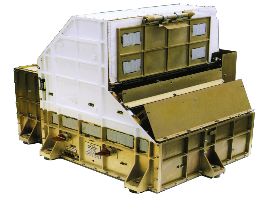 Instrument of the scientific satellite Advanced Composition Explorer. The Solar Wind Ion Mass Spectrometer (SWIMS) is a versatile instrument that provides solar wind composition data for all solar wind conditions. It clearly determines, every few minutes, the quantities of most of the elements and a wide range of isotopes in the solar wind. The abundances of rare isotopes are determined every few hours, providing information crucial to the understanding of pickup ions and ACRs (described later). SWIMS is extending knowledge of solar wind composition to additional elements and isotopes.